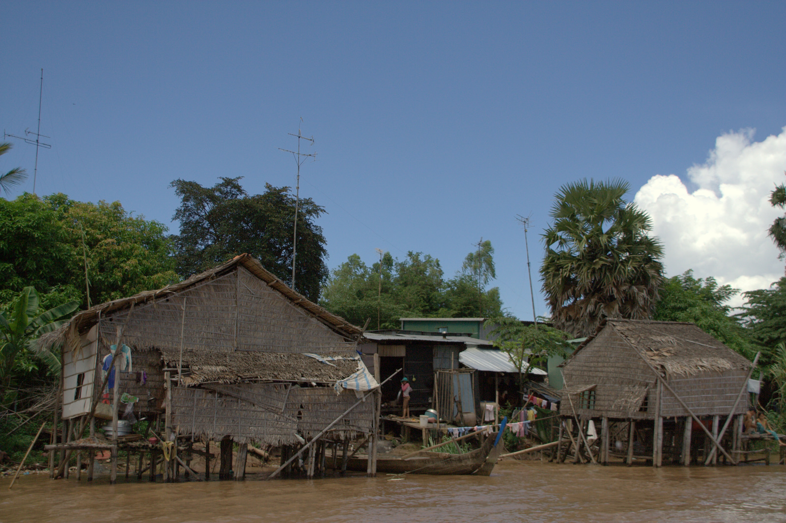 Small settlement along the Bassac River (Cambodia).